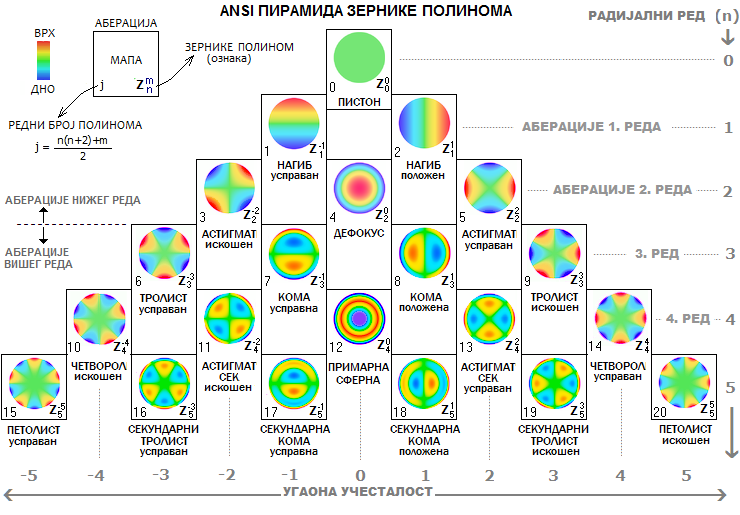 ANSI ЗЕРНИКЕ ПИРАМИДА